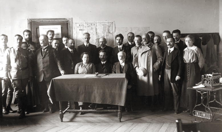 Staff of Military Department of Polish Supreme National Committee 1914. In the centre Ignacy Daszyński